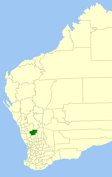 Description=Location of the Local Government Area in Western Australia